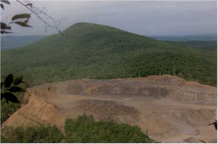 Round Mountain traprock quarry. The Holyoke Range, Amherst and Granby, Massachusetts. 1989. Photo by Paul Gagnon. For articles Metacomet Ridge and Holyoke Range